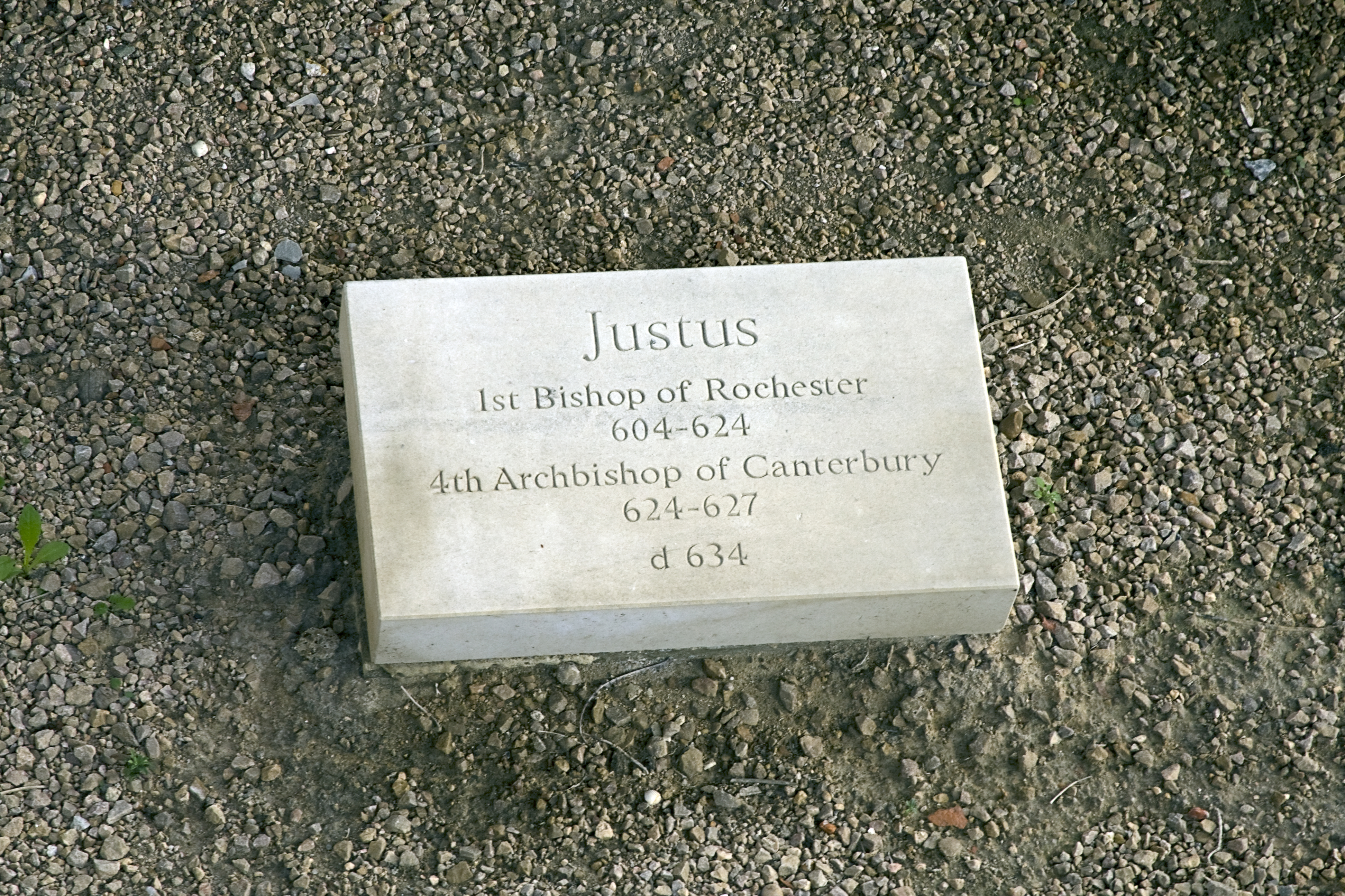 St Augustine's Abbey, Canterbury - gravestone of Justus, fourth archbishop of Canterbury